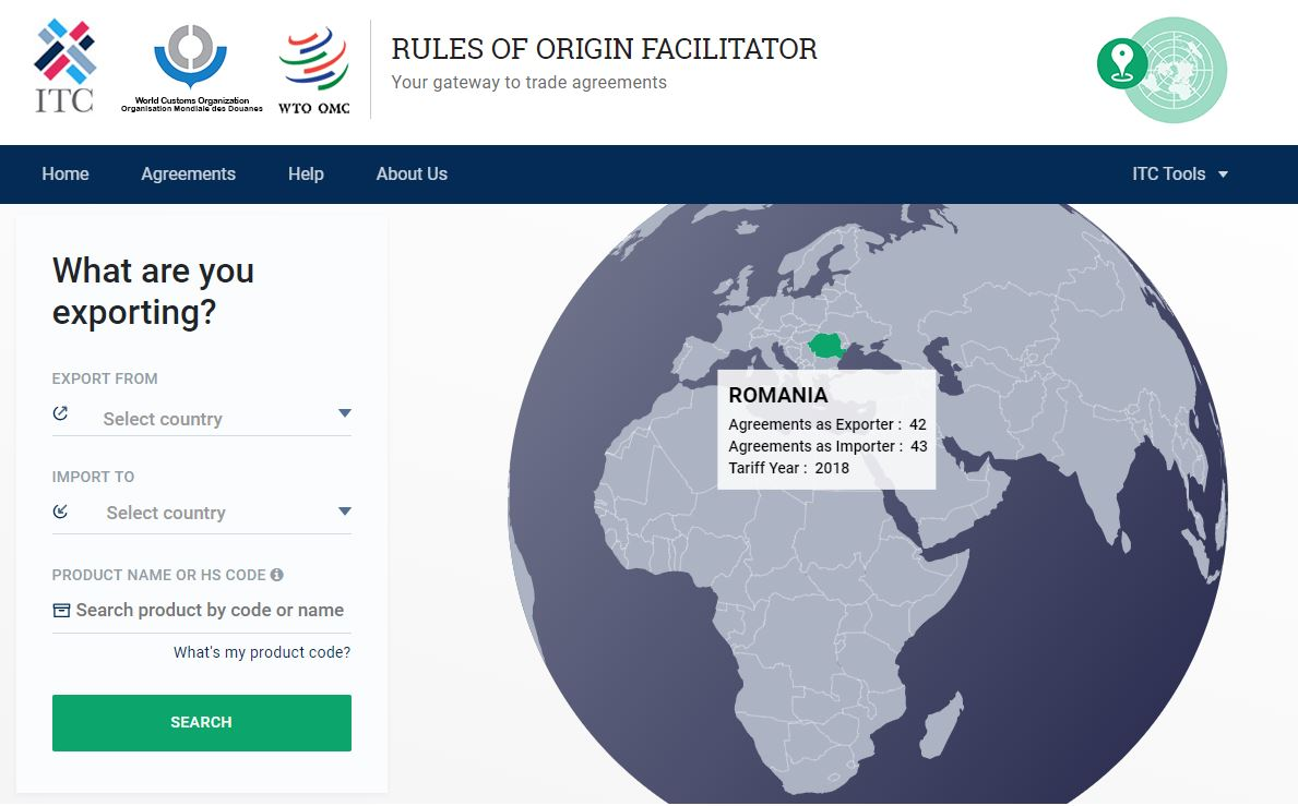 An initiative of ITC in collaboration with WTO and WCO to facilitate the understanding of rules of origin